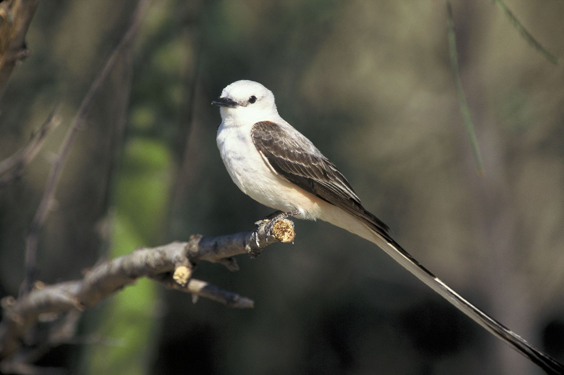 Scissor-tailed Flycatcher Source WO-1527-8119